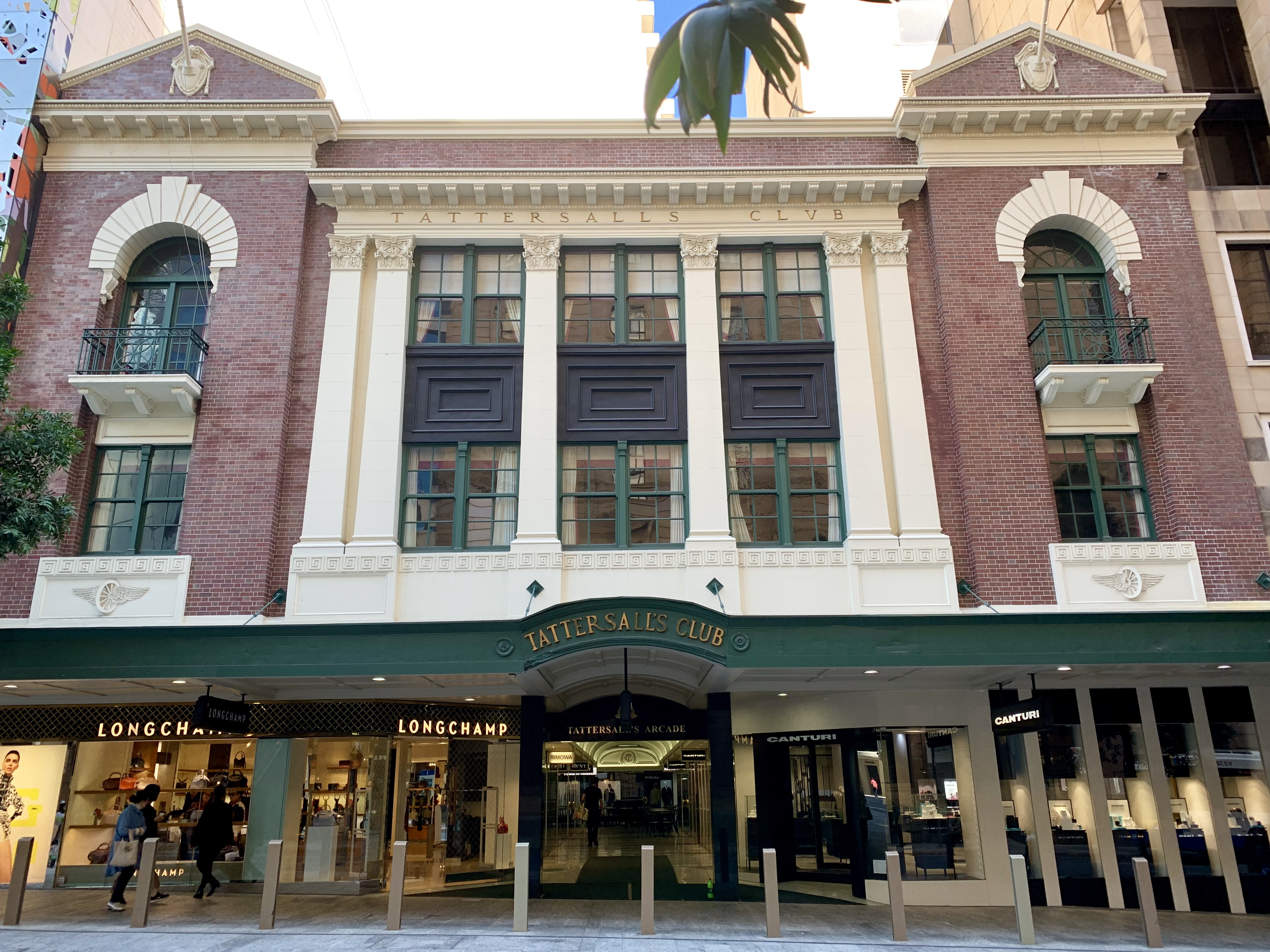 Tattersalls Club at 206 Edward Street, Brisbane, Queensland